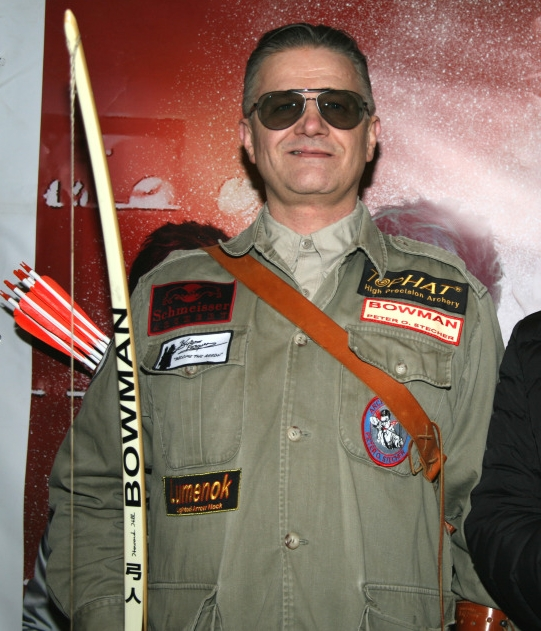 Archer Peter Stecher poses in China in January 2015 at an archery exhibition.